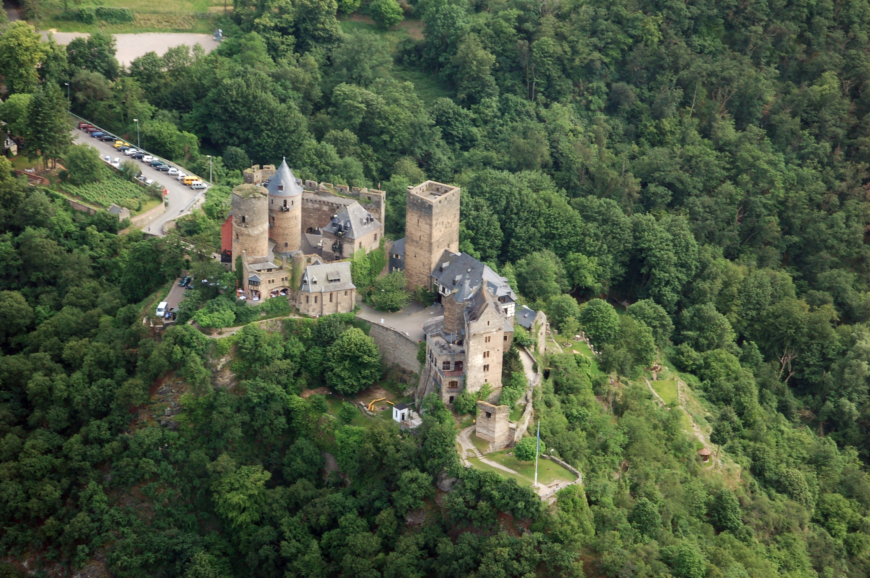 Aerial photograph of the Schönburg, Rhineland-Palatinate, Germany